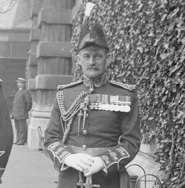 Colonel G T Forestier-Walker, General Horace Smith-Dorrien, and Colonel Paul Kenna VC.